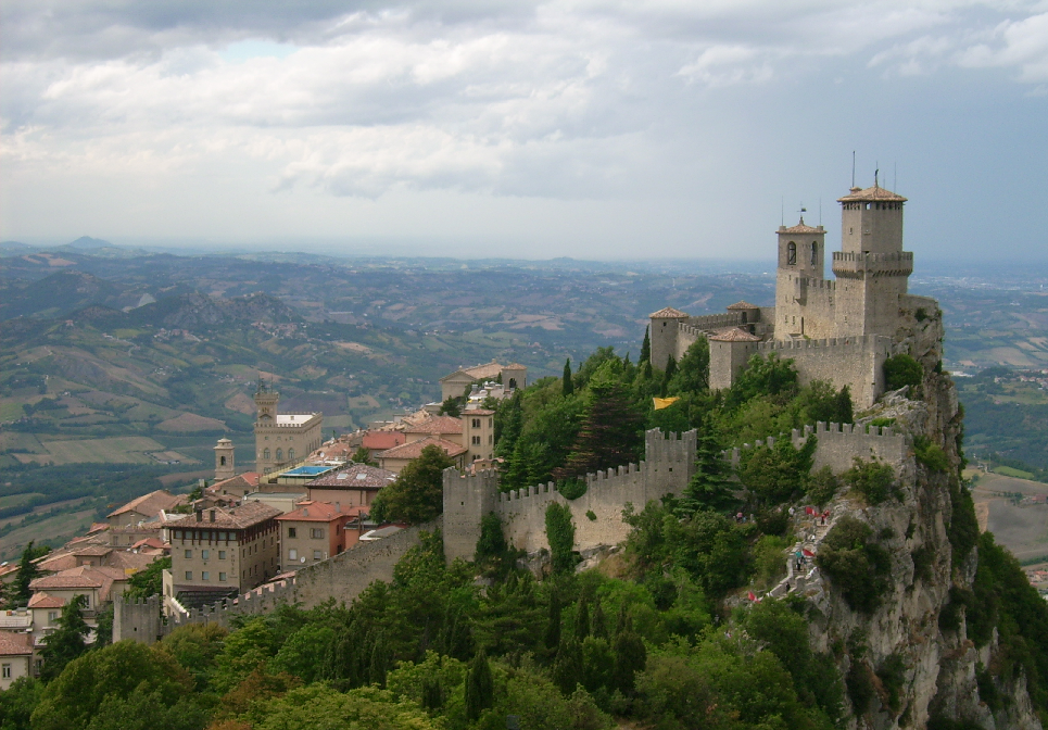 Private Image, GFDL granted.